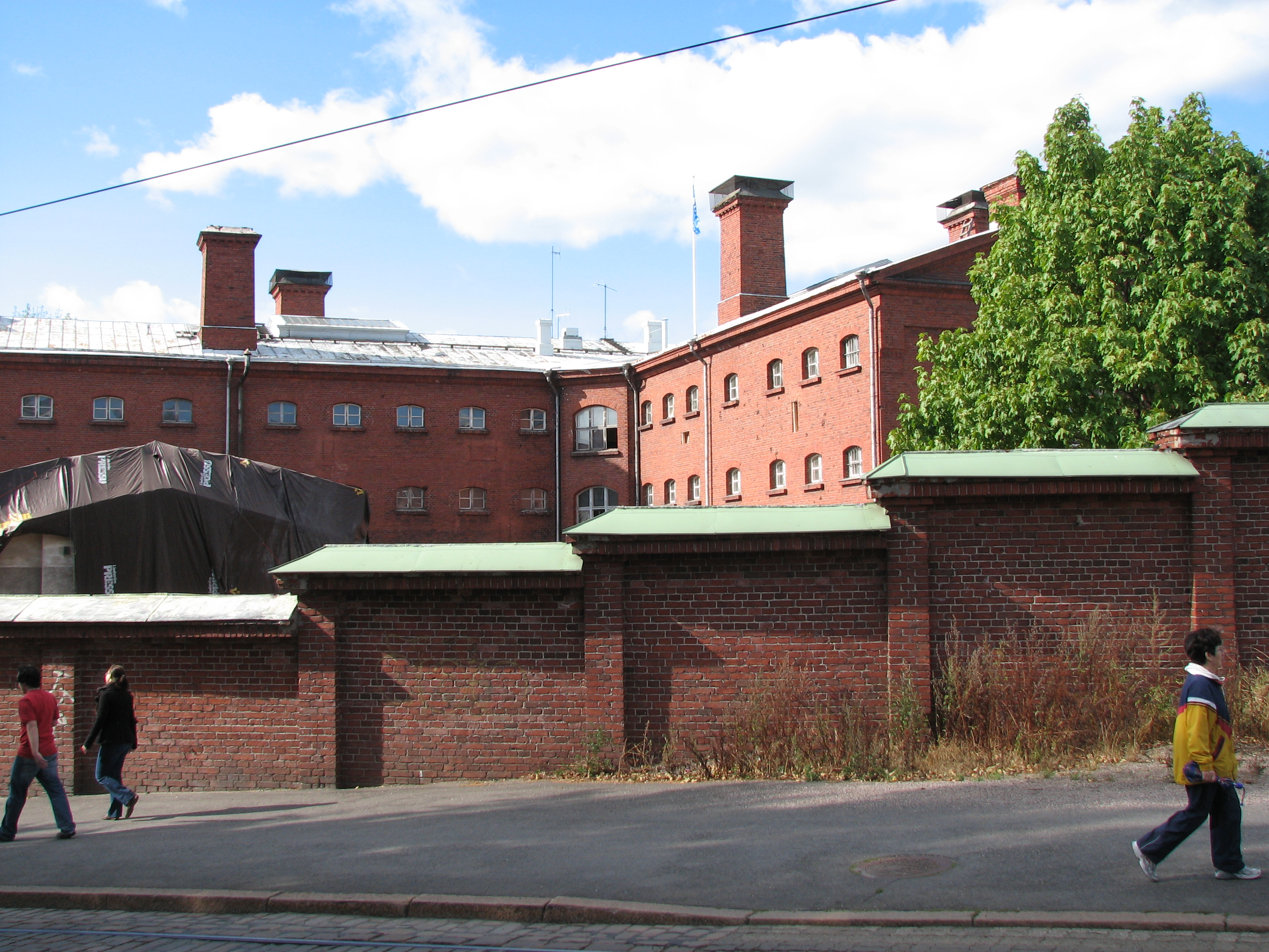 The former prison building of Katajanokka, Finland. The building is being renovated into a hotel. The Finnish Museum Bureau has listed the building as part of Helsinki's official heritage.